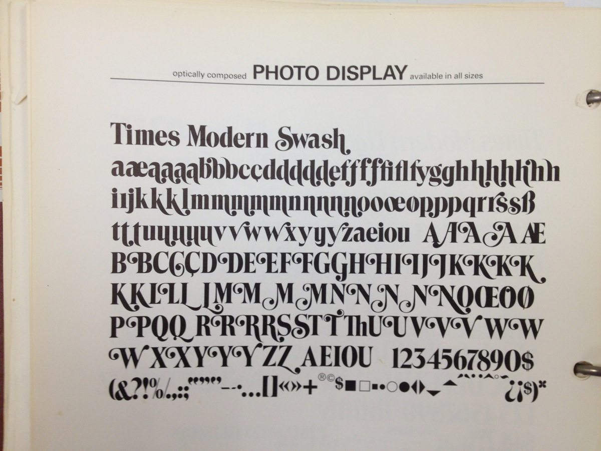 Unauthorized swash of Times New Roman